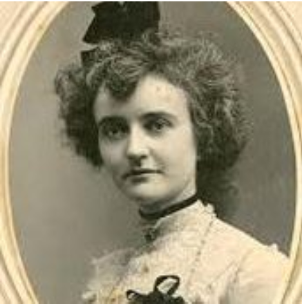 Photo of Annie Dale Biddle Andrews (December 13, 1885 – April 14, 1940) from Women Who Figure